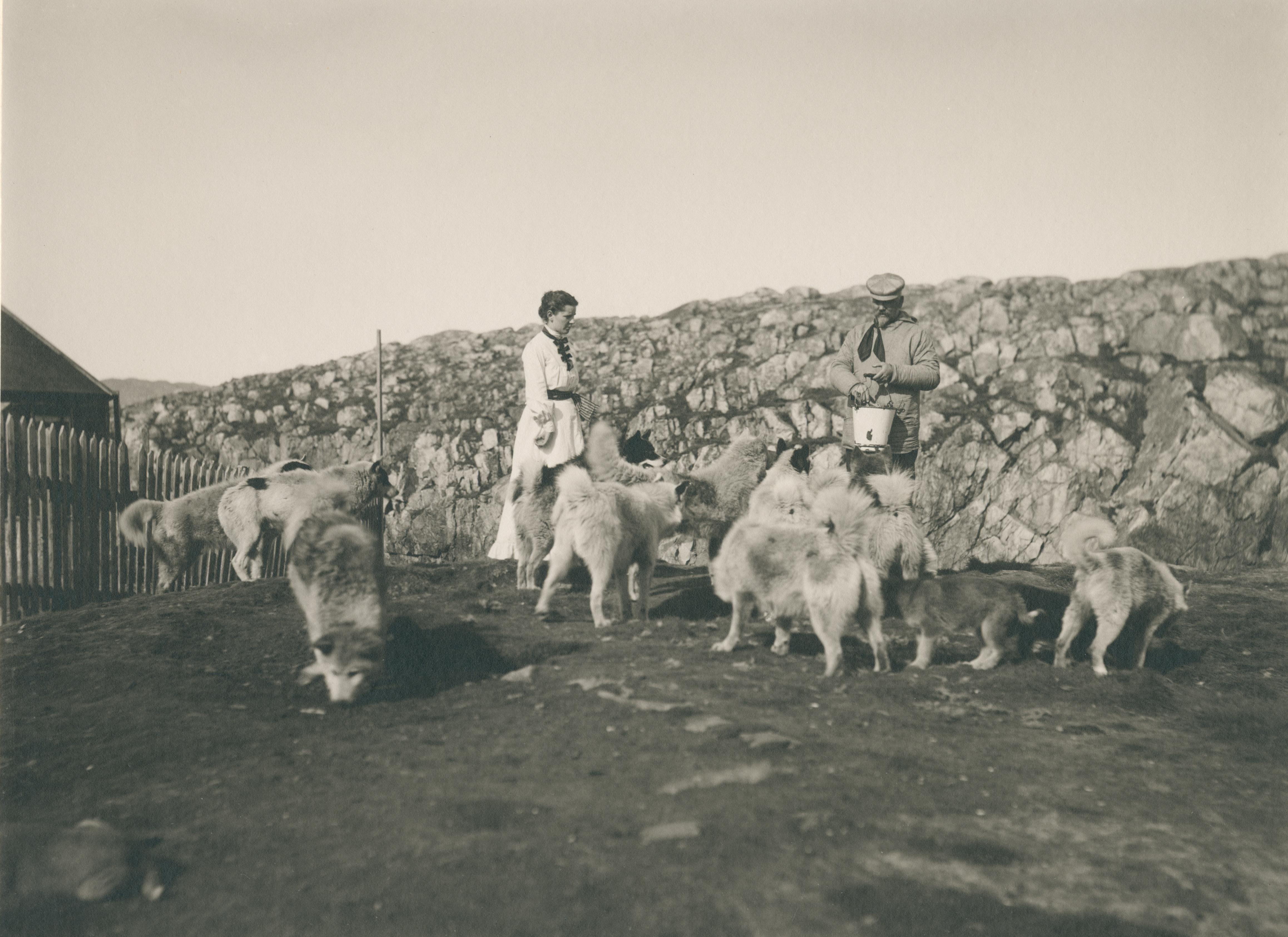 Greenland. Dog feeding in Egedesminde - Aasiaat.